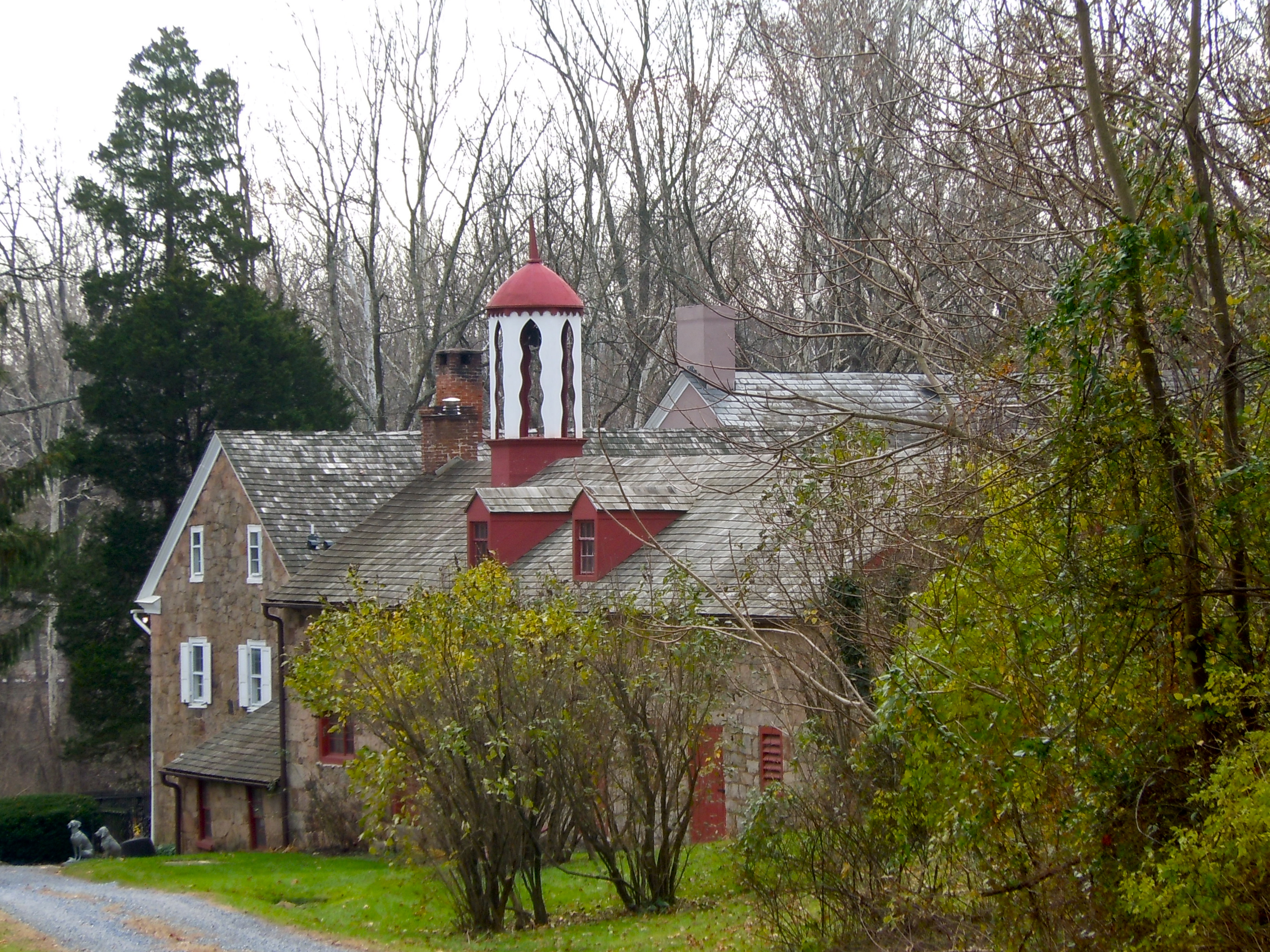 National Historic Landmark, the Stiegel-Coleman House on the NRHP since November 13, 1966. On Pennsylvania Route 501 and U.S. Route 322, north of Brickerville, Elizabeth Township, Lancaster County, Pennsylvania. Mansion and old iron furnace from 1700s